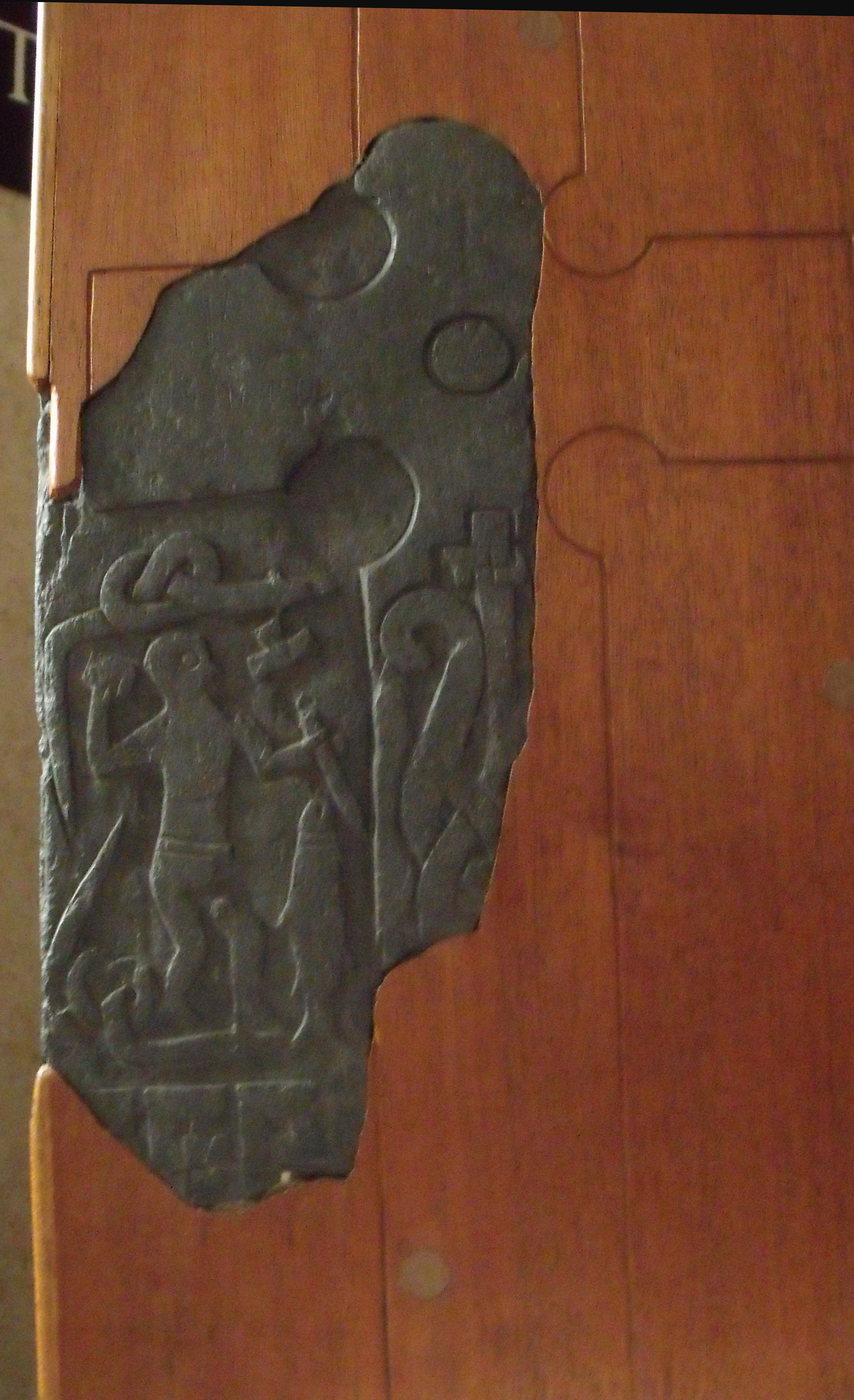 Thorwald's Cross, Kirk Andreas (IOM)